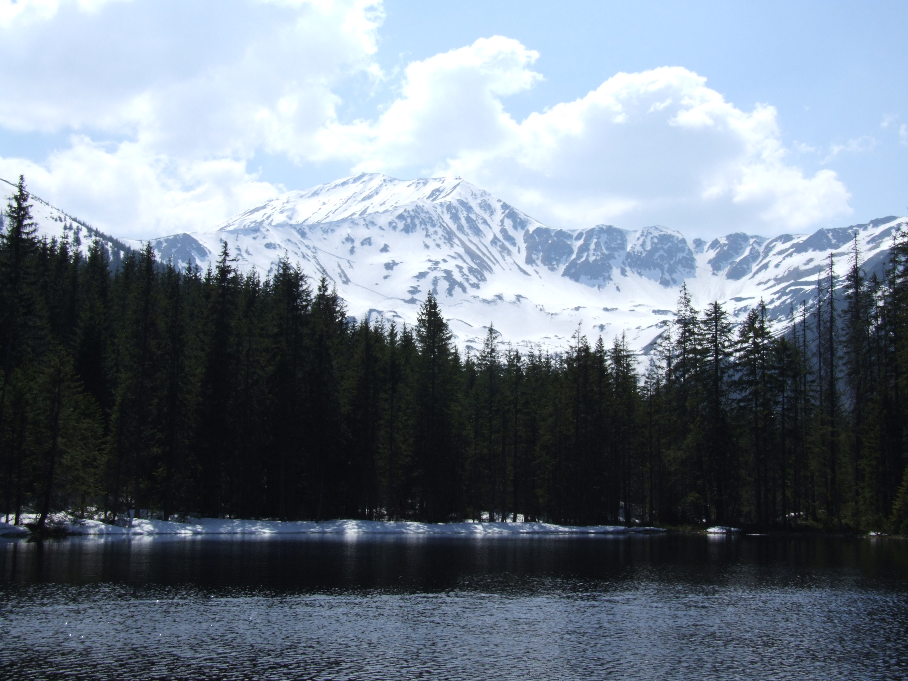 Smreczyński Staw (a tarn) near Kościeliska Valley (Western Tatras/Poland)